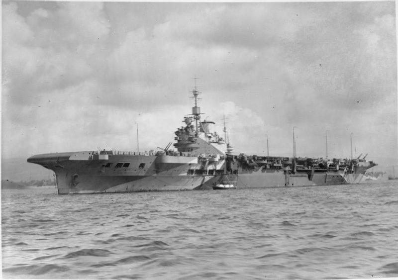 The Royal Navy during the Second World War HMS ILLUSTRIOUS moored.